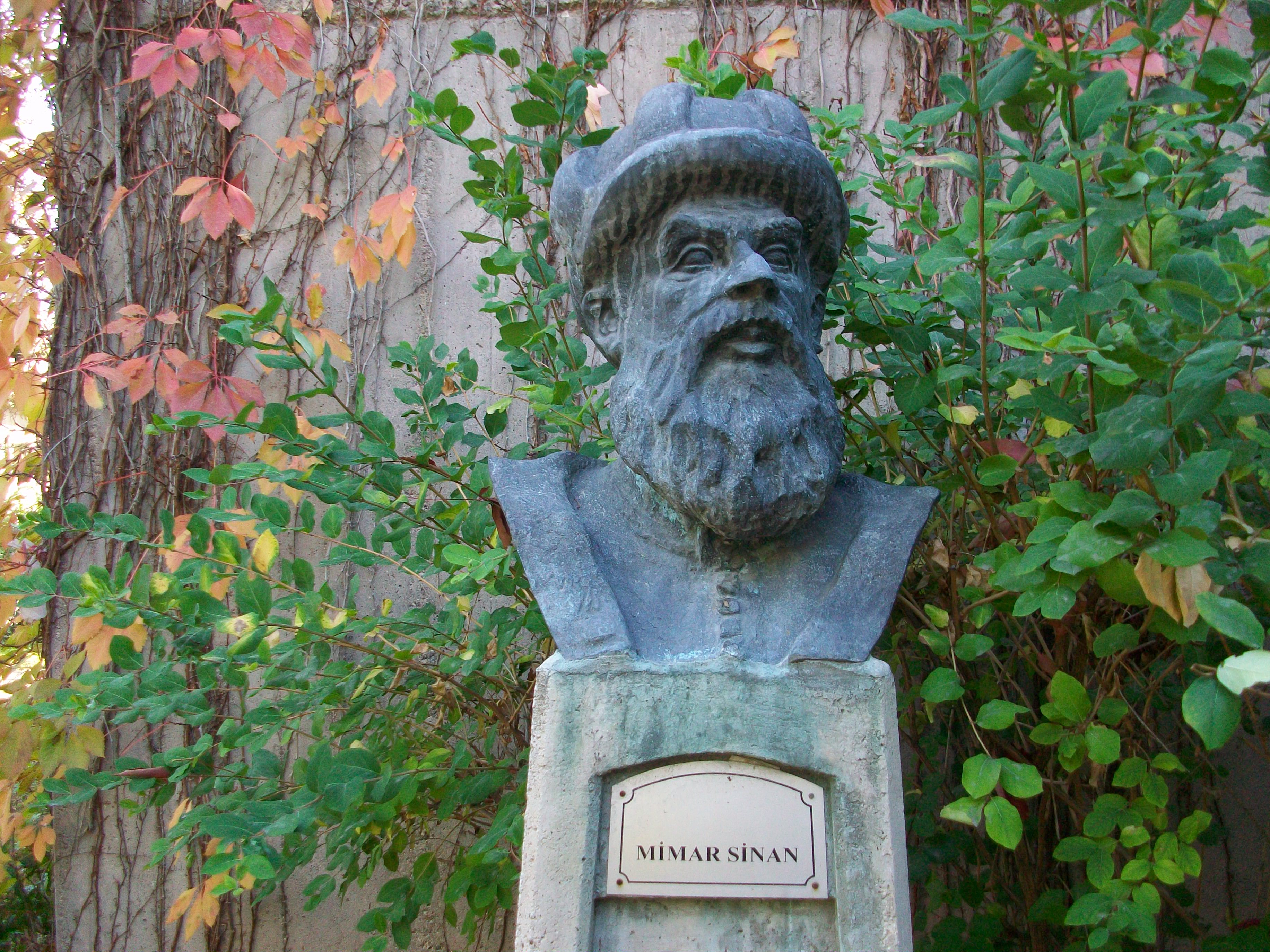 Mimar Sinan bust at METU.